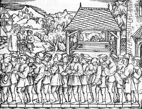 Stand at the door of a church on a Sunday and bid 16 men to stop, tall ones and small ones, as they happen to pass out when the service is finished; then make them put their left feet one behind the other, and the length thus obtained shall be a right and lawful rood to measure and survey the land with, and the 16th part of it shall be the right and lawful foot.